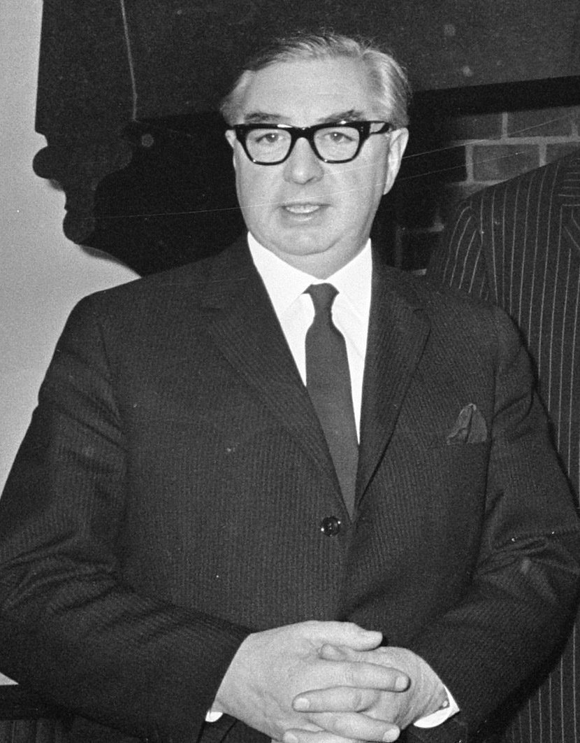 George Brown in the Netherlands (1967)